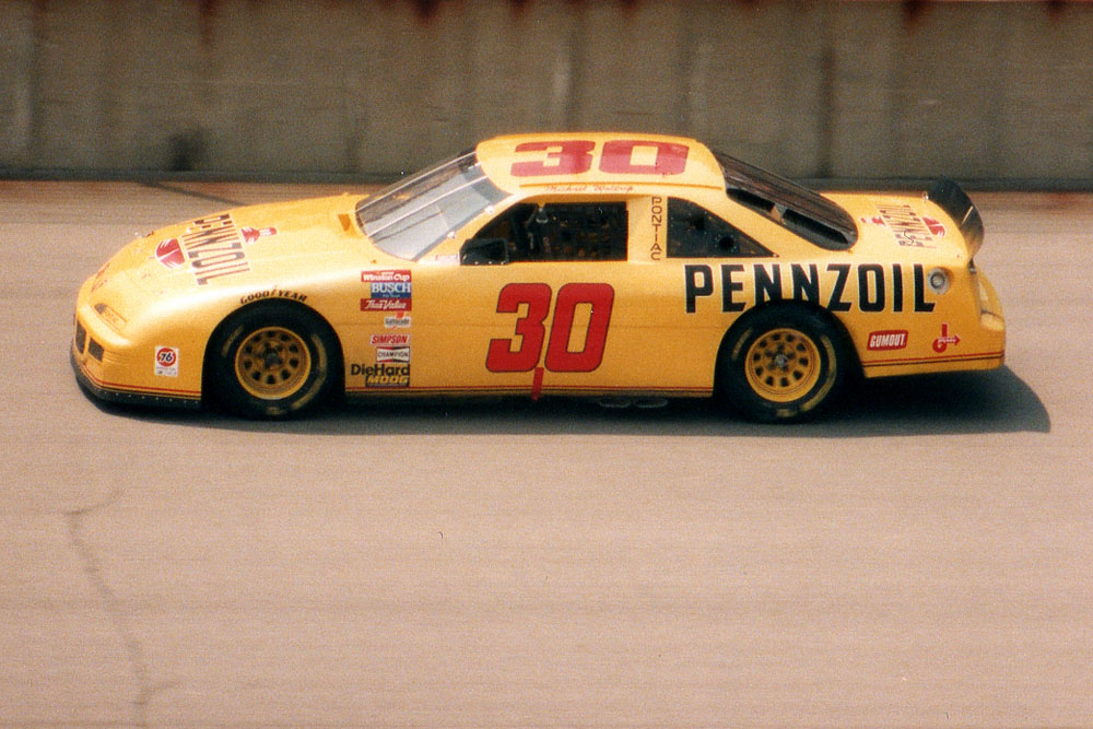 Michael Waltrip - Michigan International Speedway – June 1994 Film Scan Canon AE-1